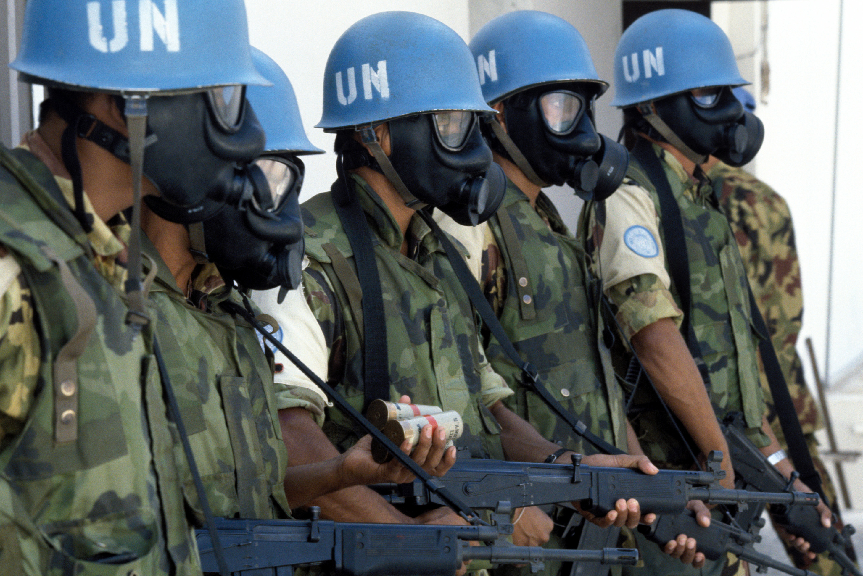 Bildbeschreibung: Nepalesische Soldaten während des UN-Einsatzes 1993 in Somalia. Originaltext: Nepalese soldiers outfitted in protective masks display their short assault rifles. They are part of the Quick Reactionary Force (QRF) which provides foot patrols and guards convoys of United Nations staff members going to their homes.